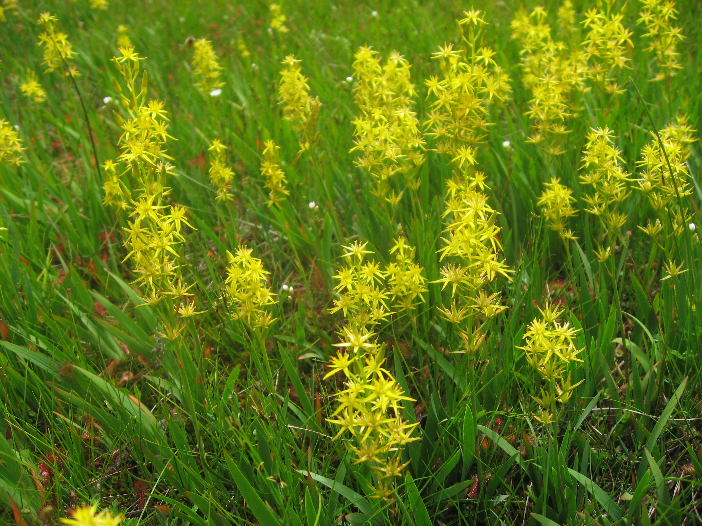 Narthecium asiaticum, Tashiroyama moor, Fukushima pref., Japan